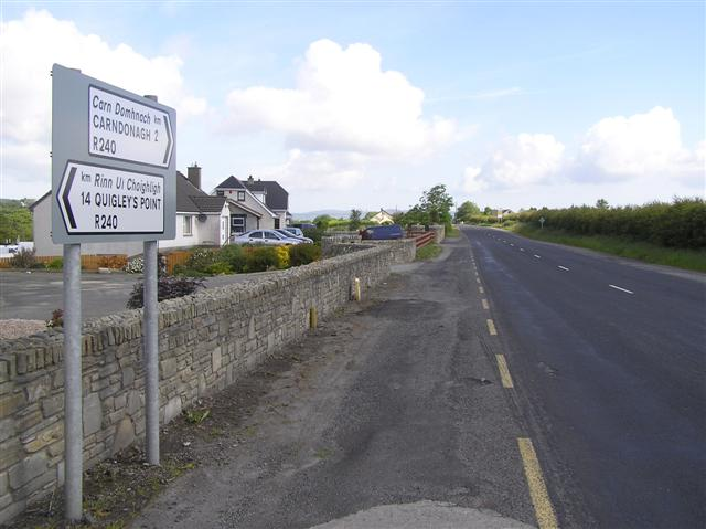 R240 at Ballyloskey Heading north to Carndonagh